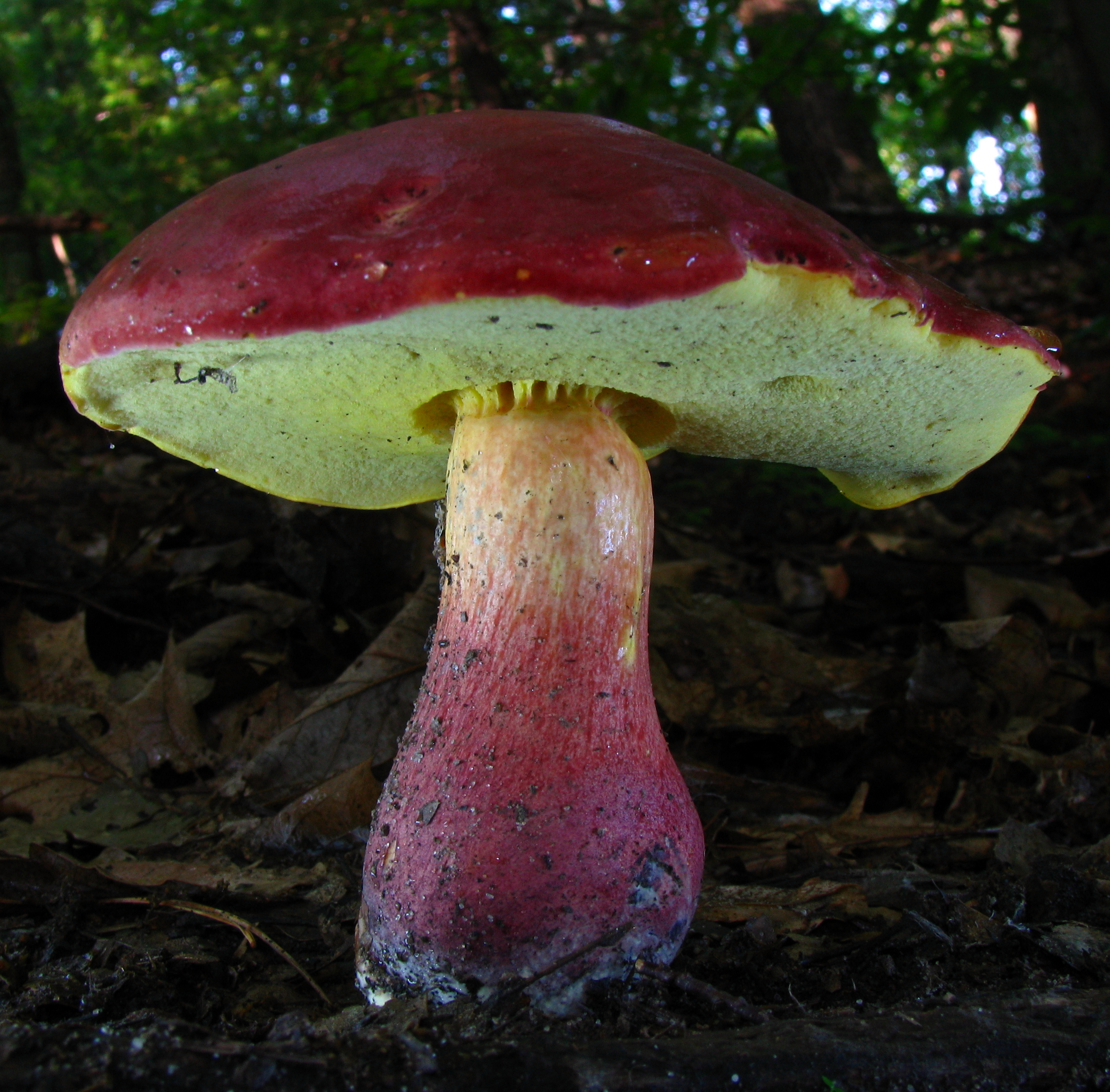 Boletus bicolor Peck Location: Strouds Run State Park, Athens, Ohio, USA For more information about this, see the observation page at Mushroom Observer.